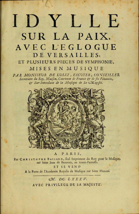 The title page of the Idylle sur la paix by Jean-Baptiste Lully.